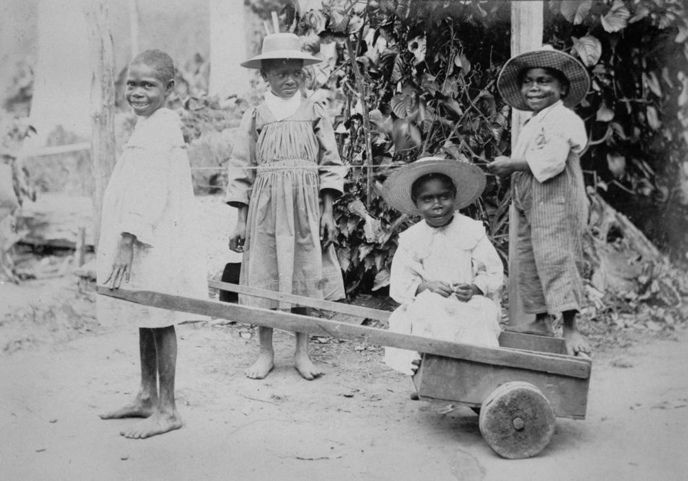 South Sea Islander children at Innisfail, Queensland, ca. 1902-1905 A charming study of a group of barefoot children playing with a wooden hand cart in Innisfail about 1902.